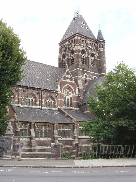 St Stephen's Church, Rosslyn Hill. Designed by S.S. Teulon 1866-9. It was affected by subsidence, partly from building of Royal Free Hospital, became dilapidated and closed in 1977. Repair and restoration is being undertaken by St Stephen's Restoration and Preservation Trust, with support from English Heritage. See the Hampstead Churches article in the Victoria History of the Counties of England, Middlesex vol 9, online at